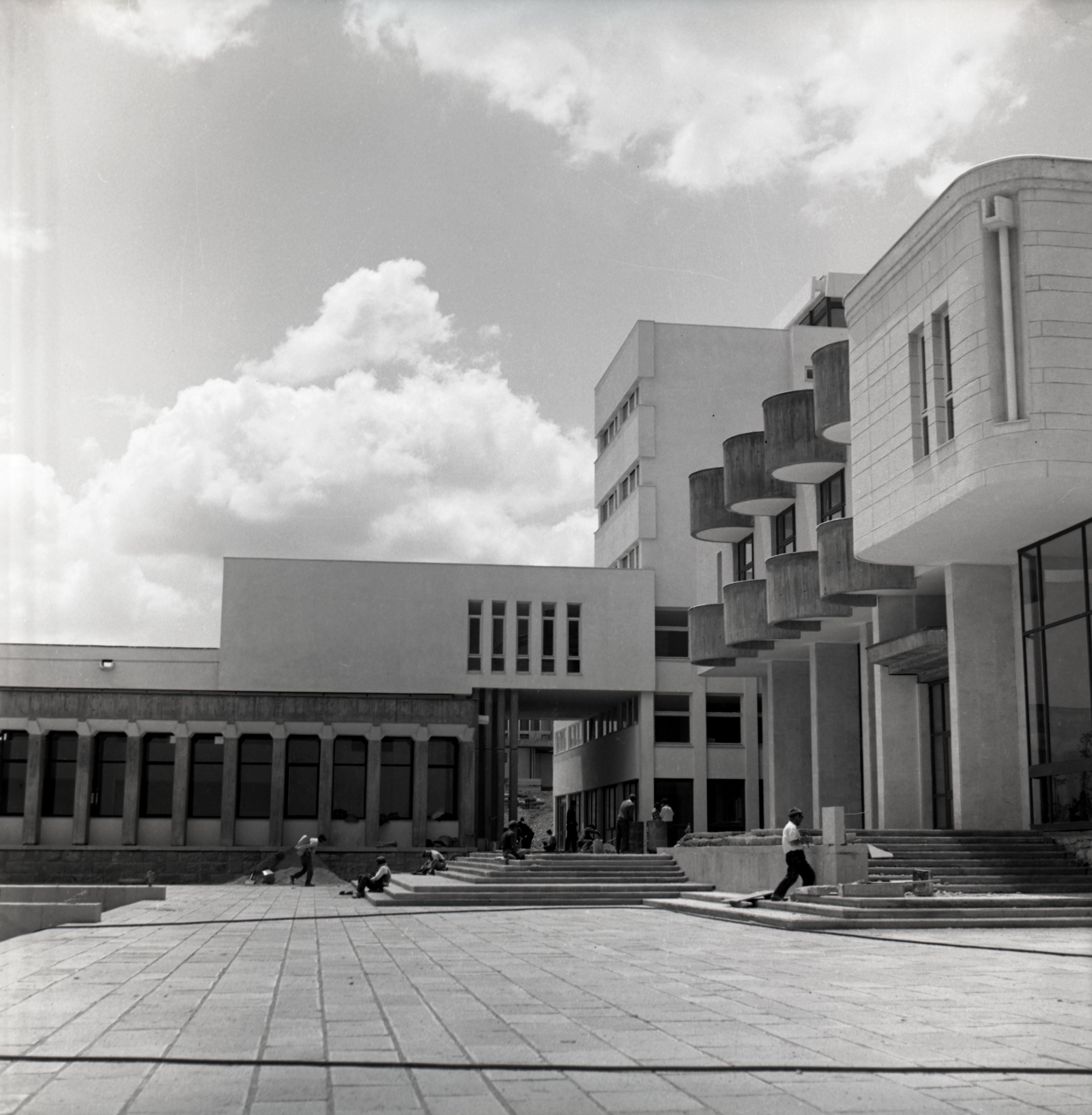 METU, Rectorate Building, entrance facade, 1961-1980 SALT Research, Altuğ-Behruz Çinici Archive ODTÜ Rektörlük binası, giriş cephesi, 1961-1980 SALT Araştırma, Altuğ-Behruz Çinici Arşivi